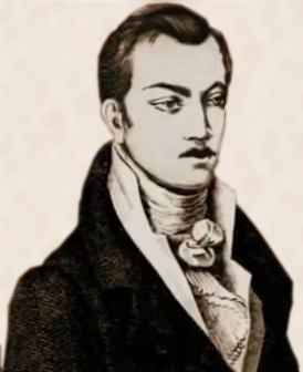 Portrait of Prince Nikoloz Baratashvili, Georgian poet.